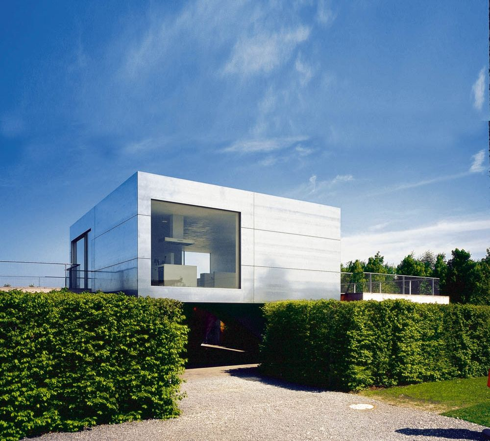 Haus der Gegenwart in München